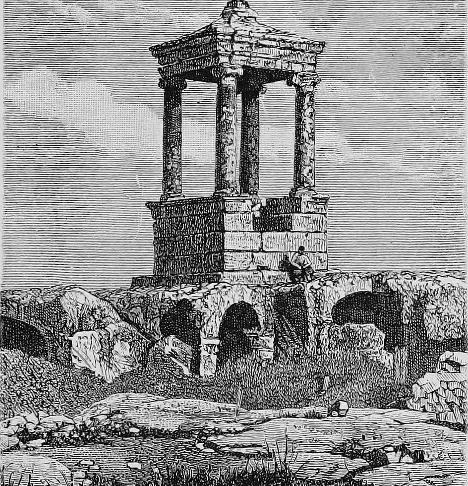 Ancient tomb of Dana Identifier: cu31924095158964 Title: The universal geography : the earth and its inhabitants Year: 1876 (1870s) Authors: Reclus, Elisée, 1830-1905 Ravenstein, Ernest George, 1834-1913 Keane, A. H. (Augustus Henry), 1833-1912 Subjects: Geography Publisher: London : J.S. Virtue & Co., Ltd.